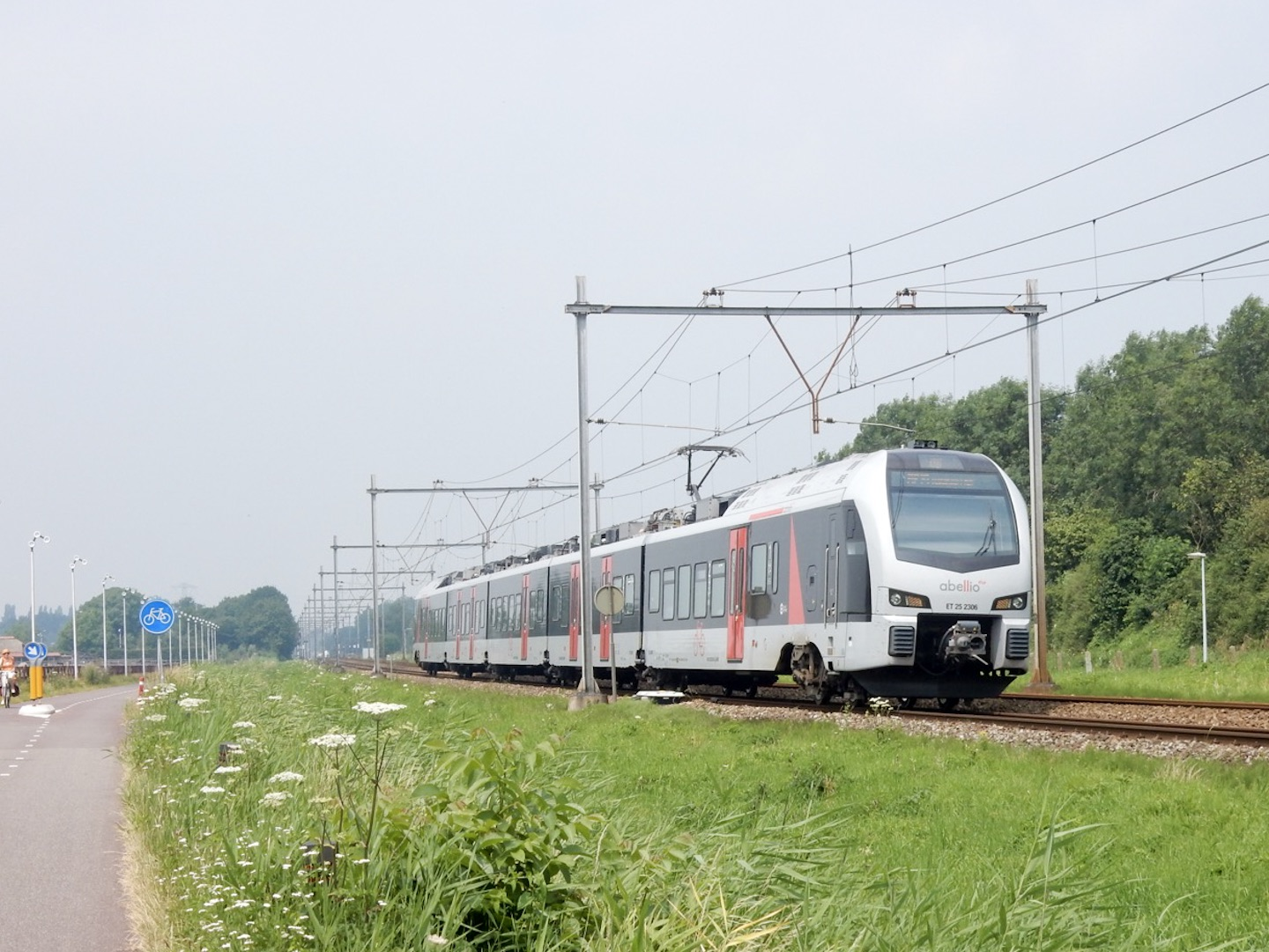 Abellio FLIRT EMU on its way on the RE19 "Rhein-IJssel-Express" in Zevenaar